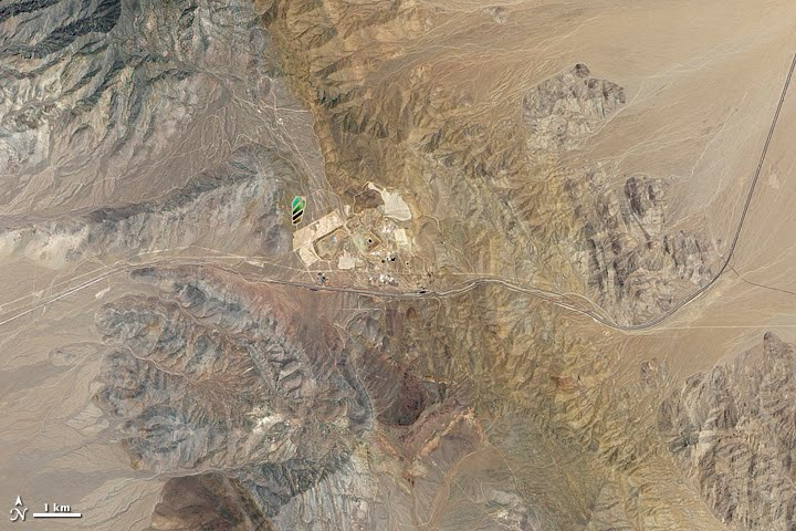 The Advanced Land Imager (ALI) on NASA’s Earth Observing-1 (EO-1) satellite captured this image on May 28, 2011. The mine is a network of buildings, terraced land, and roads situated in a mountain range within the Mojave Desert. The bright green areas in the northwest are settling ponds—reservoirs where mining wastewater is held until the suspended particles slowly precipitate out to the bottom.